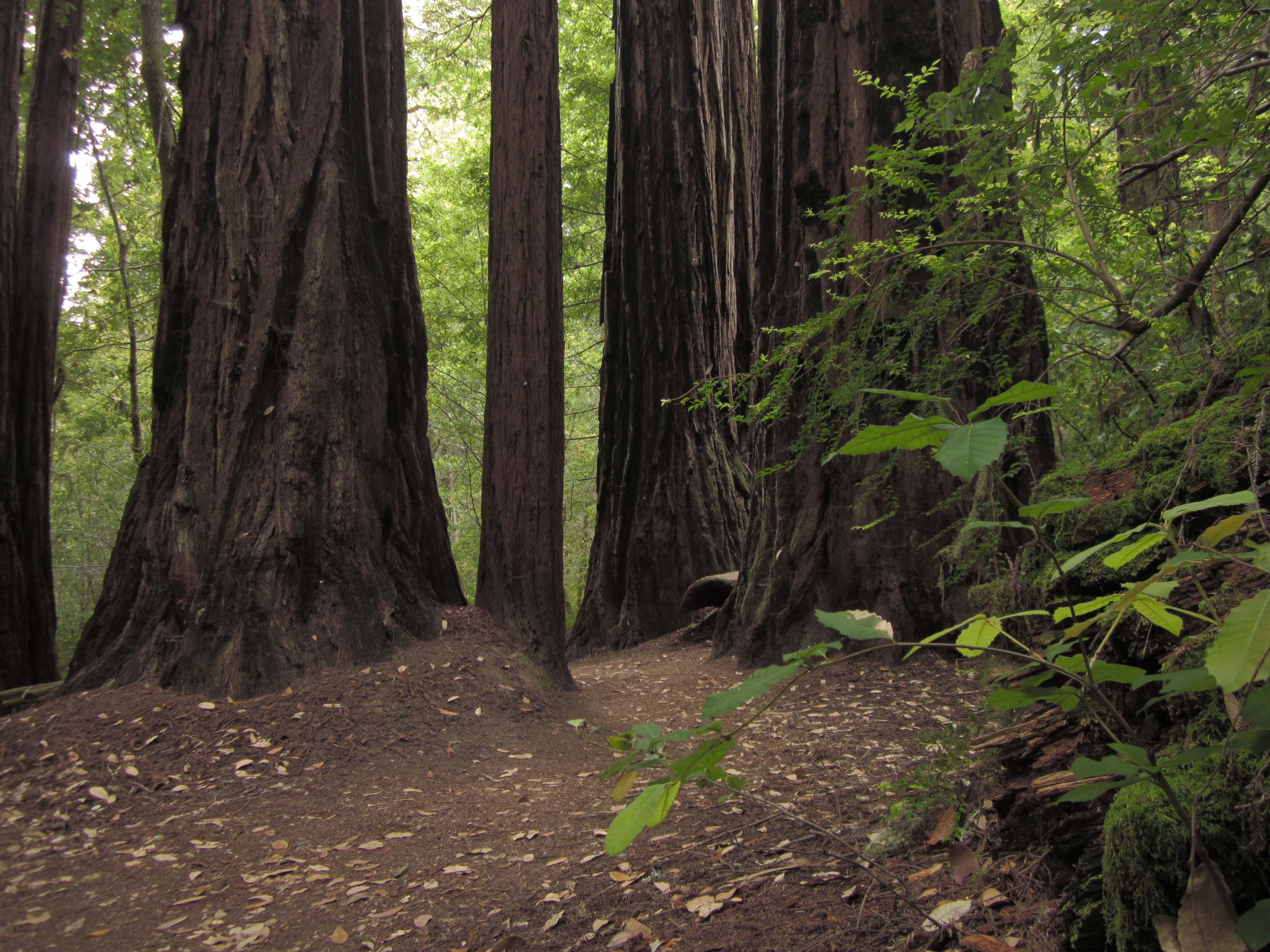 Passing through a stand of California Coast Redwood Sequoia sempervirens trees on the Skyline-to-the-Sea Trail in the Santa Cruz Mountains, northern California. Notholithocarpus densiflorus foliage at right.